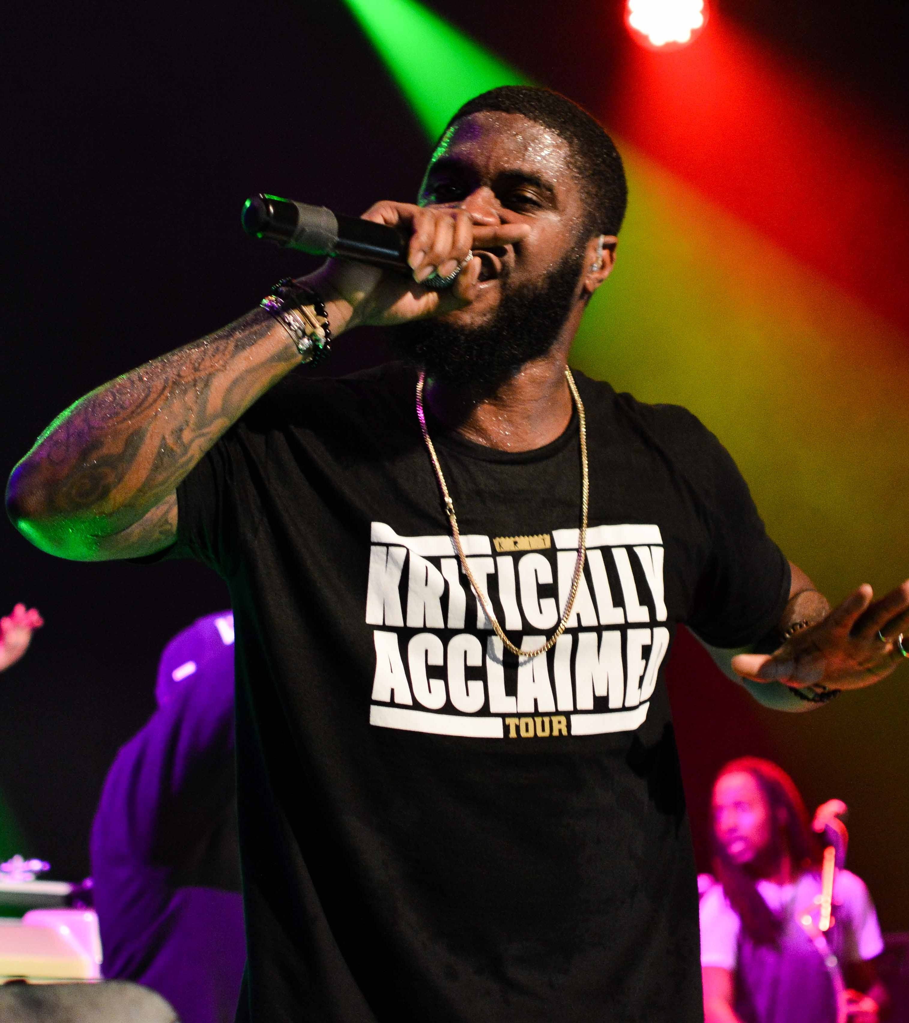 I shot this photo during his Kritically Acclaimed Tour in Macon Georgia